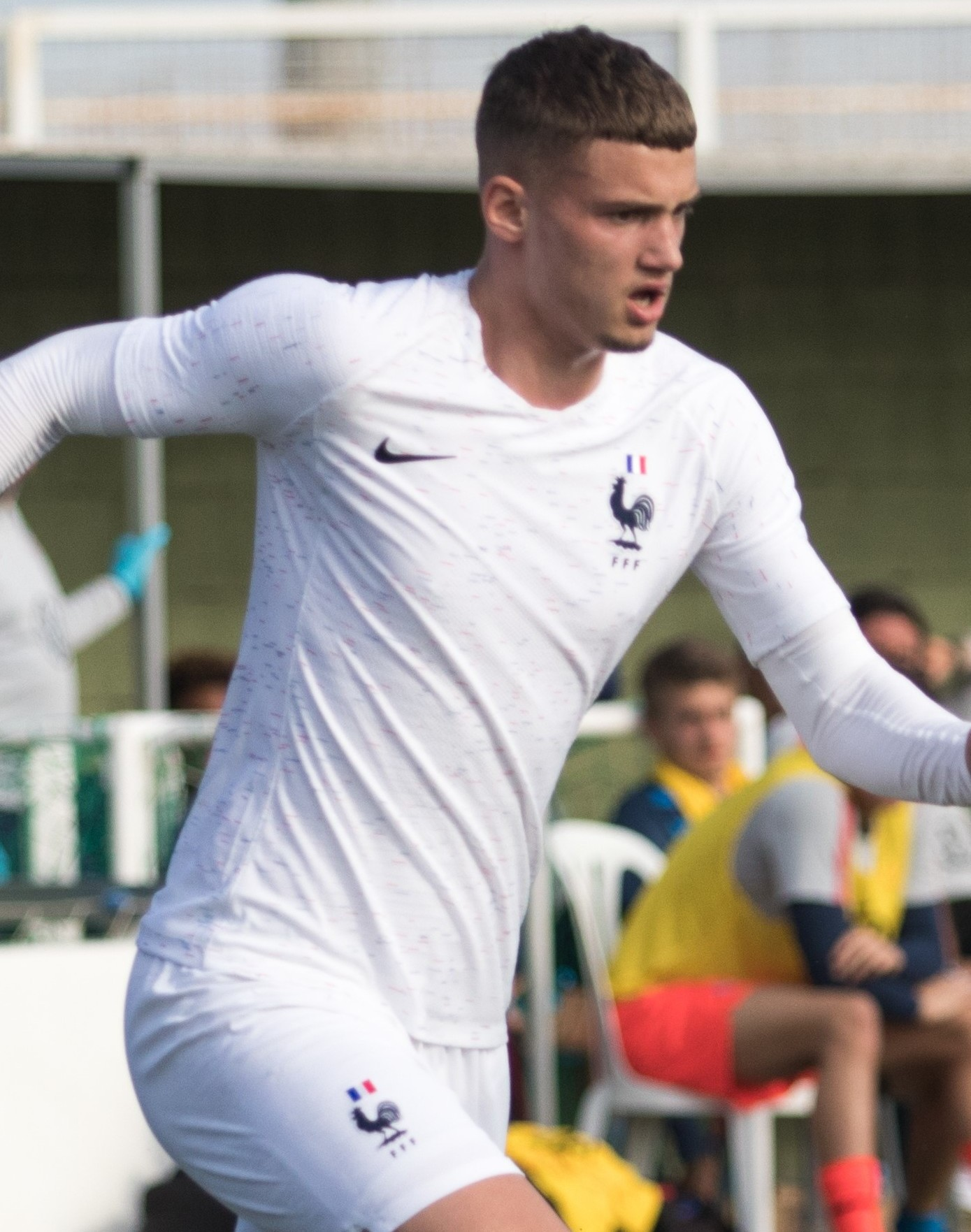 Mickaël Cuisance playing for France U20 against the United States U20 on March 22, 2019.